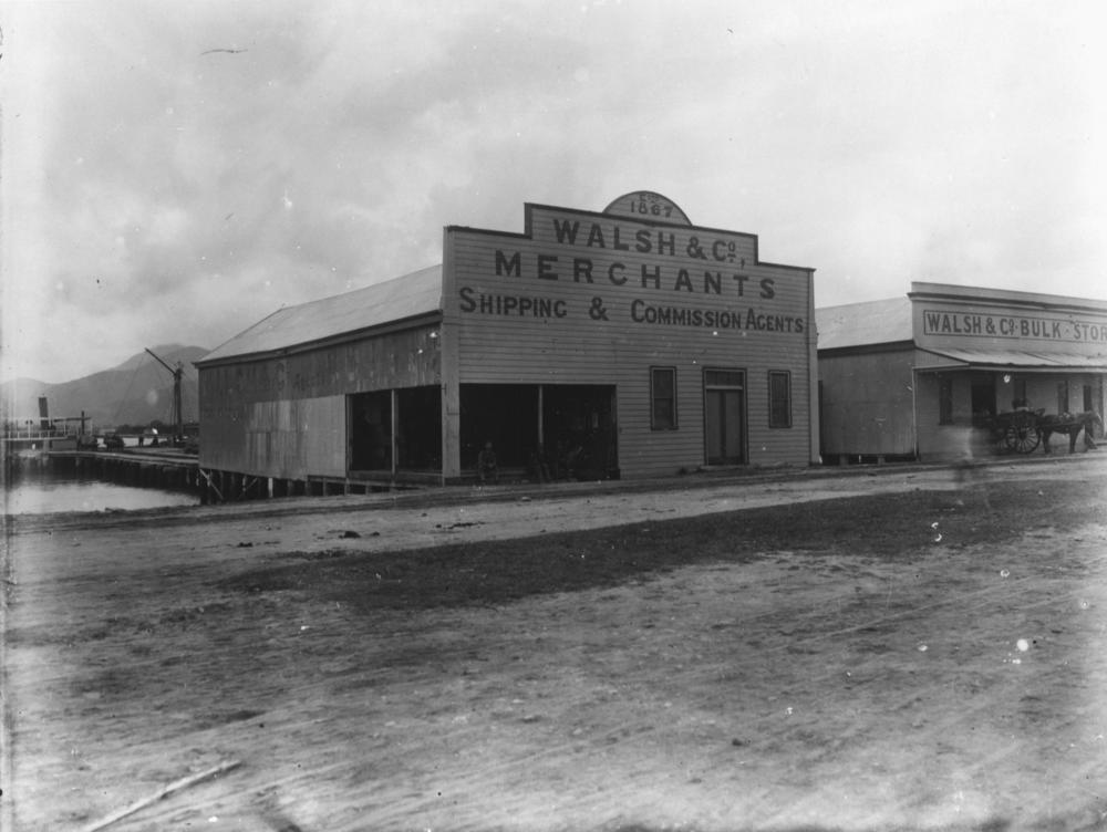 Walsh & Co. Shipping Agents, ca. 1895. Reproduced from a glass negative no. 489. (Description supplied with photograph.).